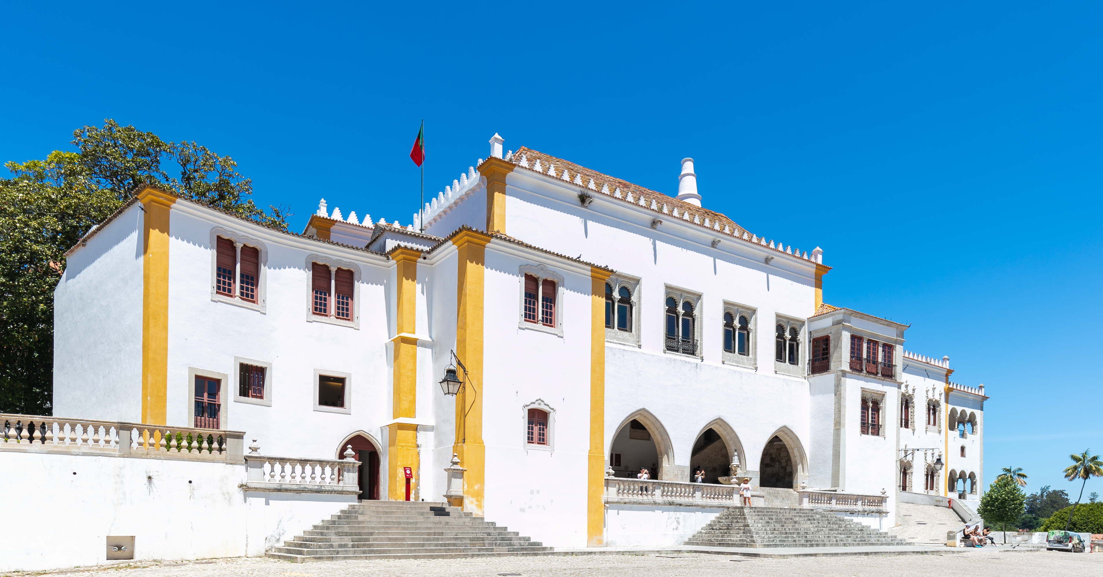 Palácio Nacional, Sintra, Portugal